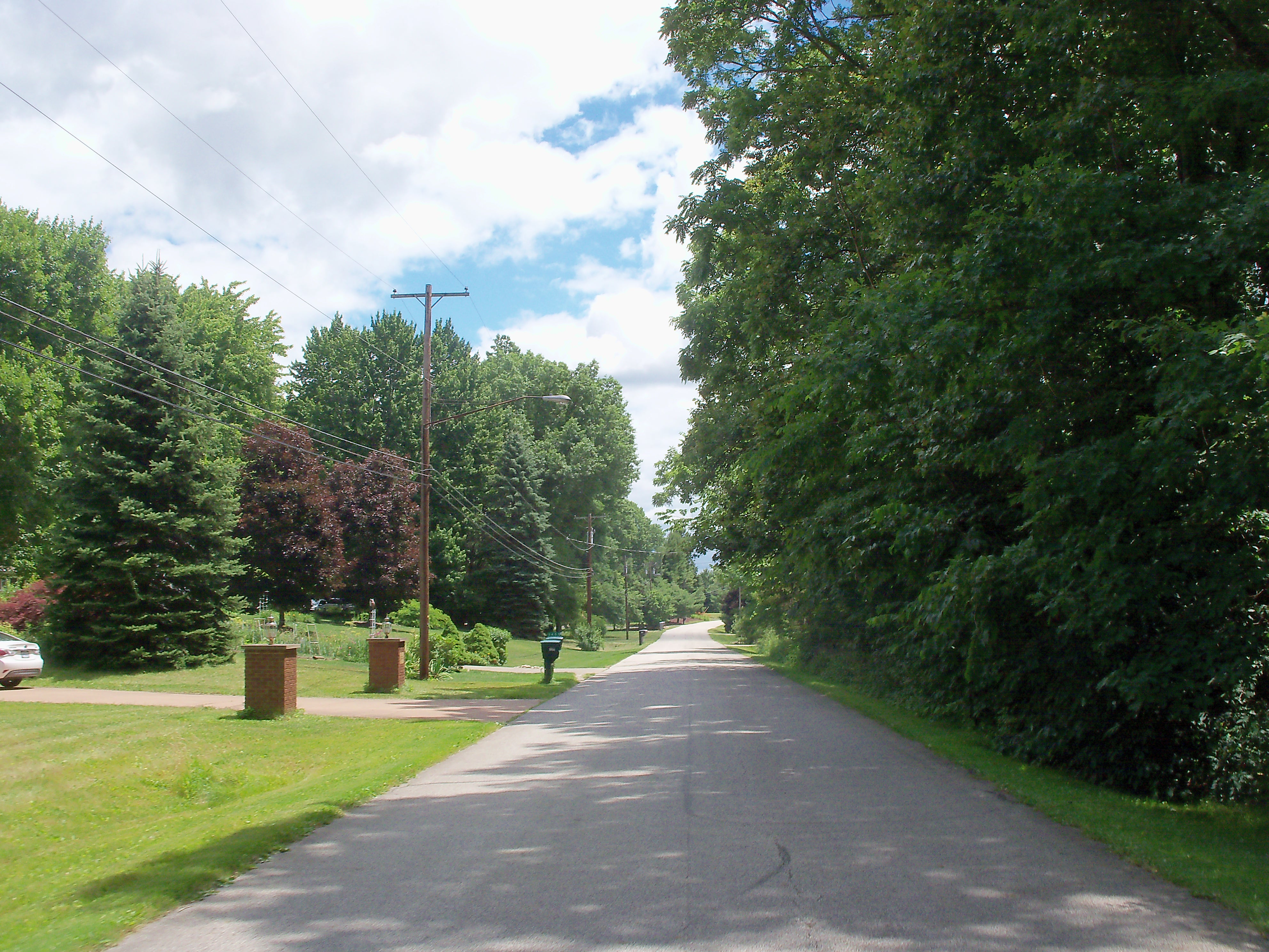 A view to the east on Lake Martin Drive in Sugar Bush Knolls, Ohio shows the wooded character of the community.